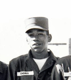 Jimi Hendrix during his U.S. Army duties at Fort Ord.